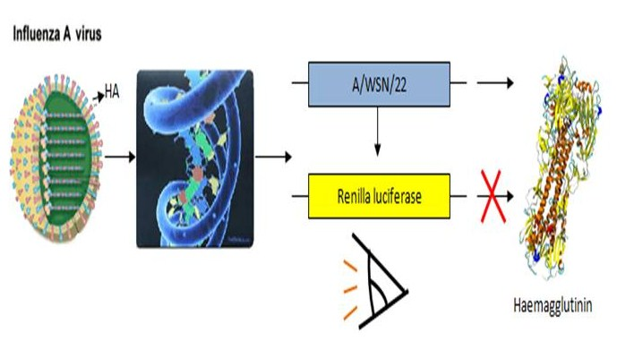 Replacing A/WSN/22 region of Influenza A genome - which encodes for Hemagglutinin (HA) - for the sequence of Renilla luciferase. Infected cells will show luminiscence.